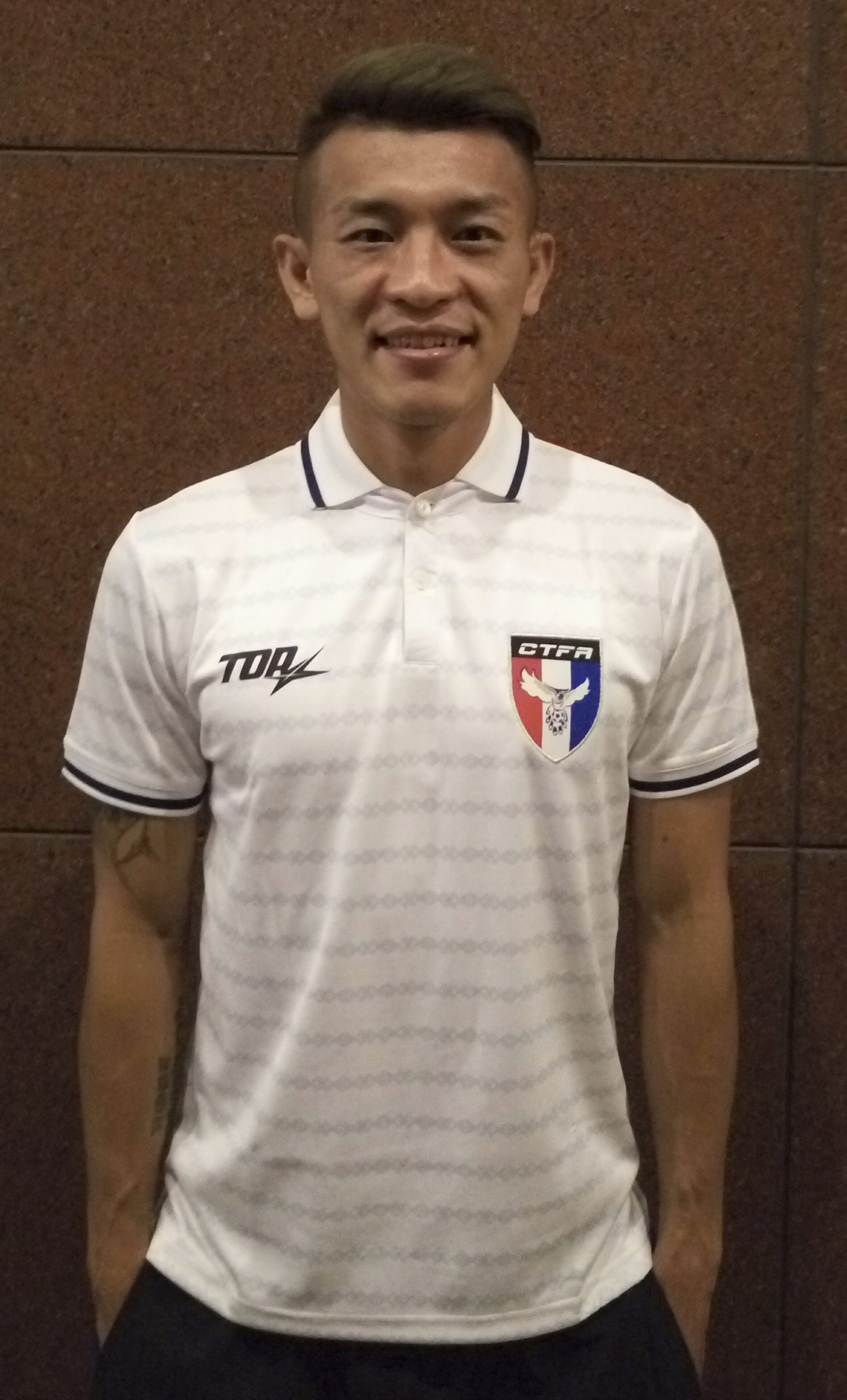 Taiwan Football Player Chen Po Liang